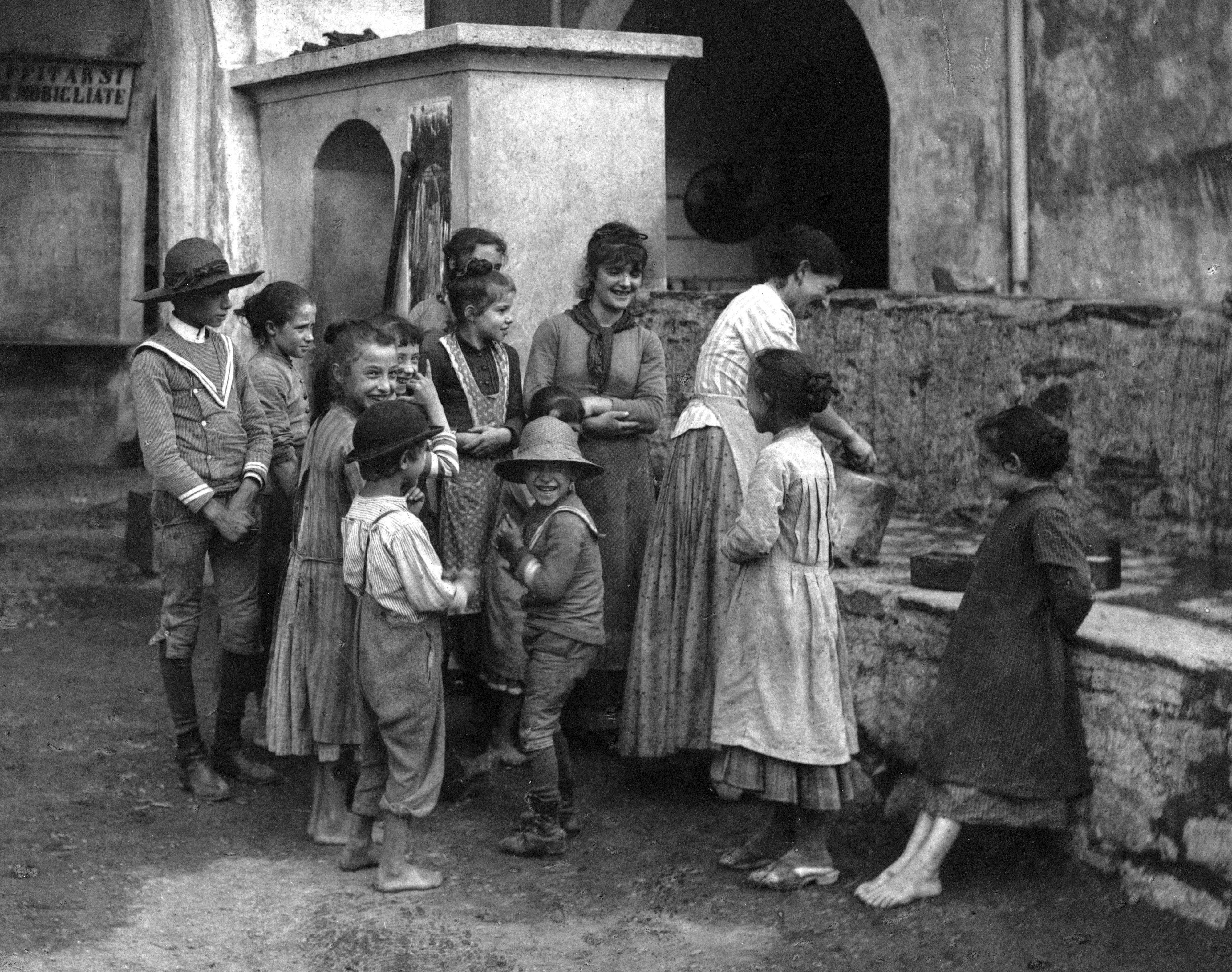 The Last Joke, Bellagio, also known as A Good Joke. This photograph was to win first place in the Amateur Photographer's Photographic Holiday Work Competition, appearing in the 25 November 1887 issue. It was considered the only spontaneous work in the competition, judged by British photographer Dr. Peter Henry Emerson. The photograph is of children laughing and talking as they gather about a woman who appears to be collecting water. It is closely cropped, focusing on the children, with architectural arches in the background providing a stage set for the image.